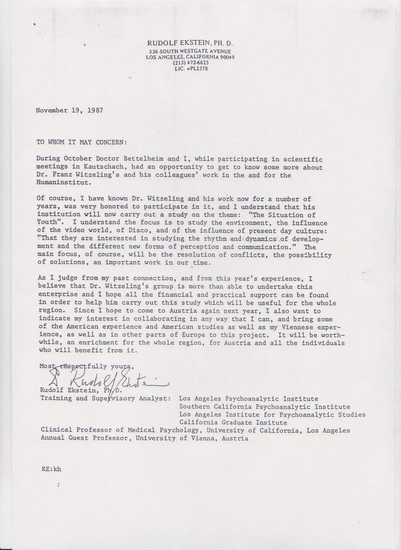 Document of the research correspondence with Rudolf Ekstein and Bruno Bettelheim